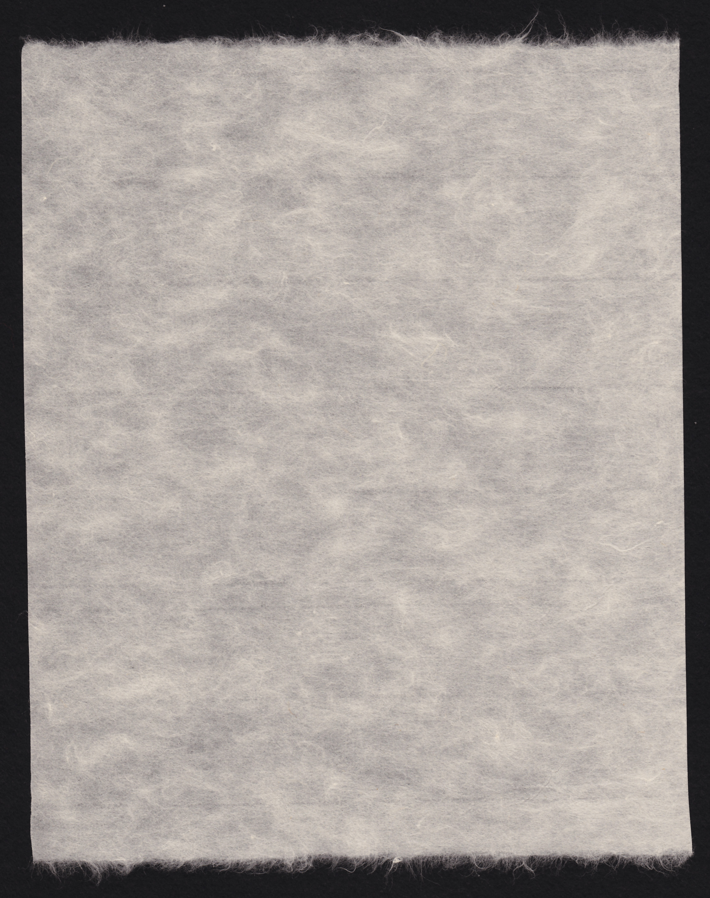 "Shiroishi washi" letter paper. Traditional Japanese paper. Shiroishi city, Miyagi pref, Japan. Craftsman: Ms. ENDOH Mashiko